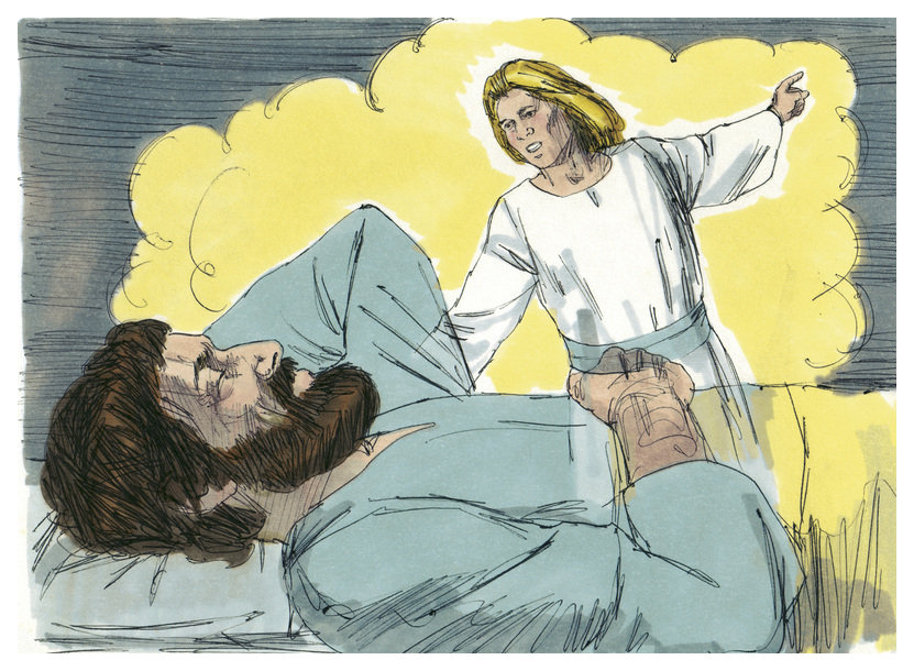 Biblical illustration of Gospel of Matthew Chapter 2